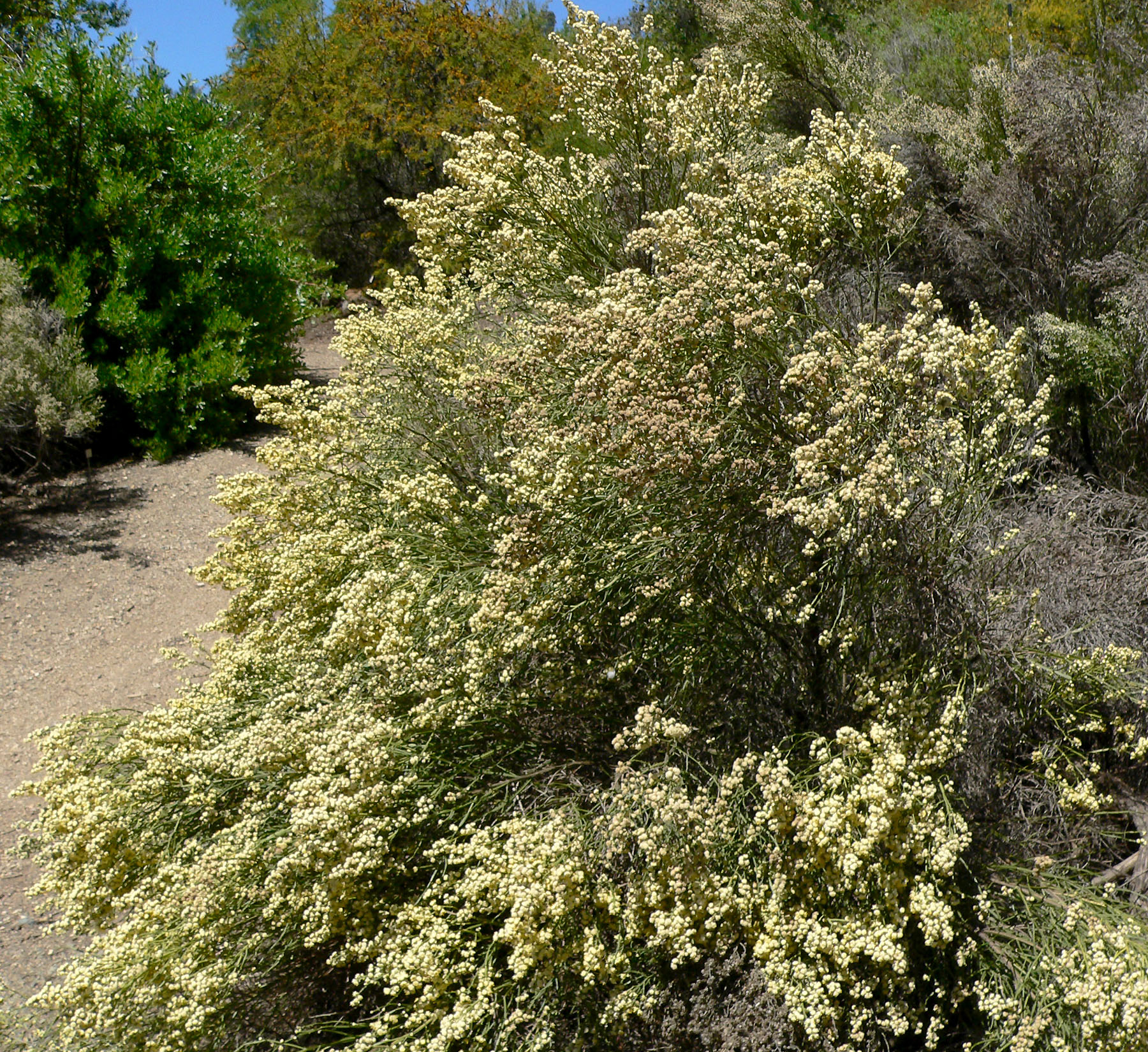 Baccharis articulata at the University of California Botanical Garden, Berkeley, California